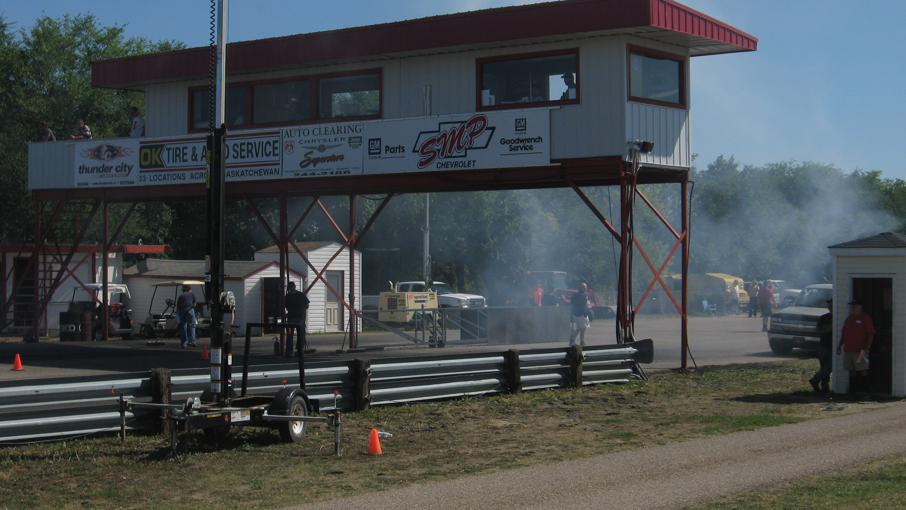 Tower after a burnout at SIR, drag strip 13km from Saskatoon, SK, 23 Aug 2008.